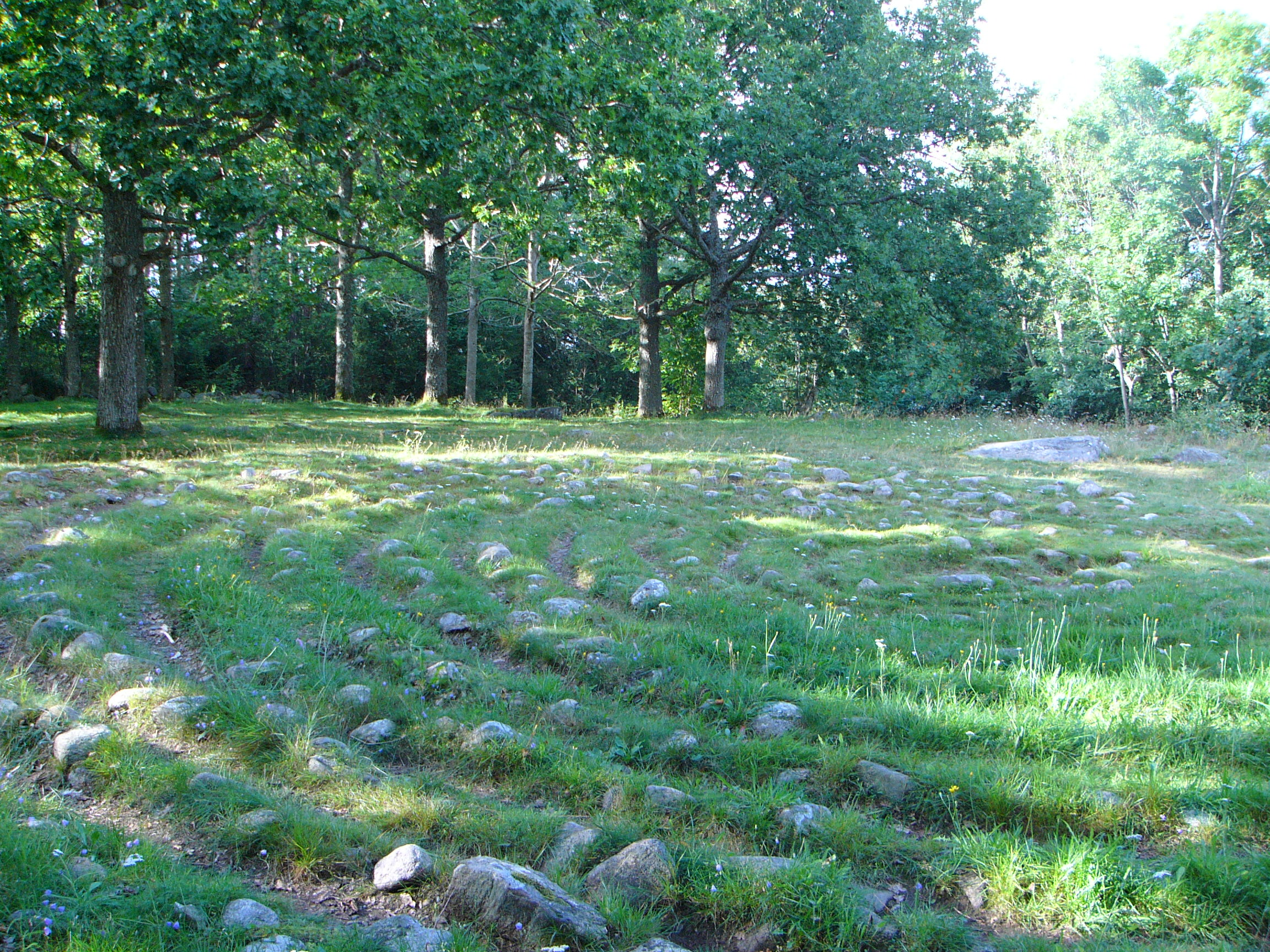 Labyrinth at Ulmekärr